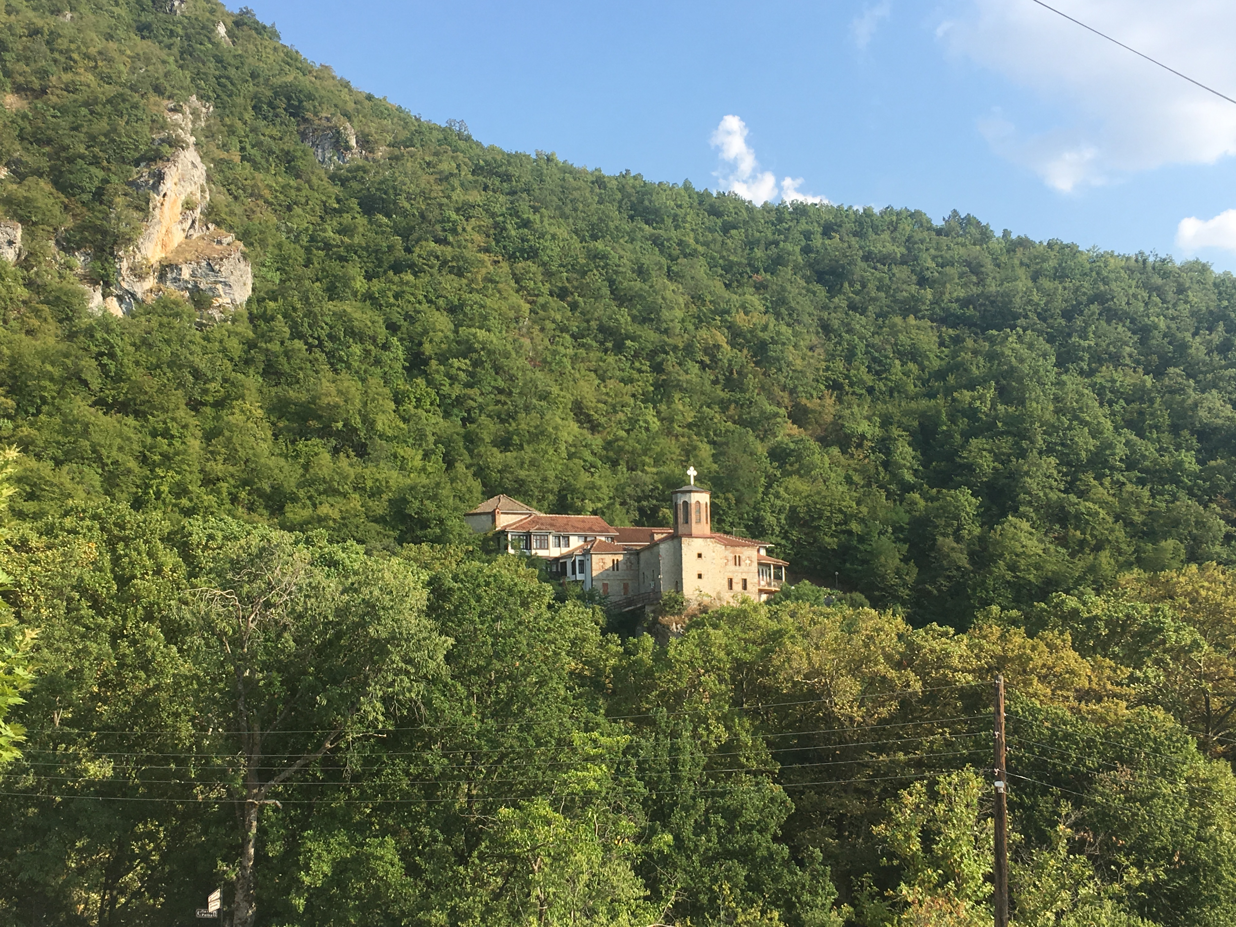 Velgošti Monastery